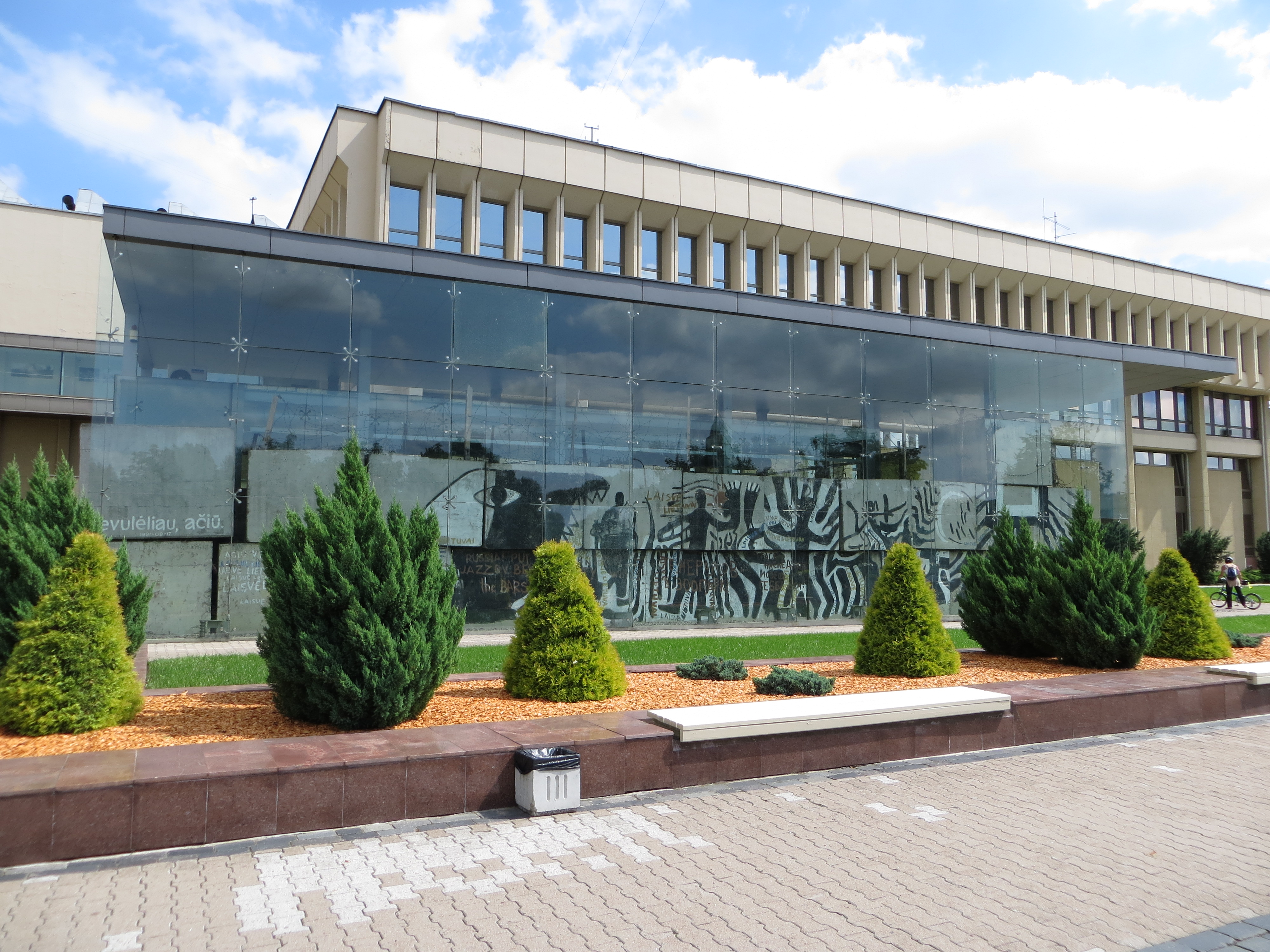 The Seimas or Parliament building in Vilnius, Lithuania, with the remains of the barricades erected on its west side on January 13, 1991, to defend the parliament from Soviet troops while it worked out the declaration of independence.